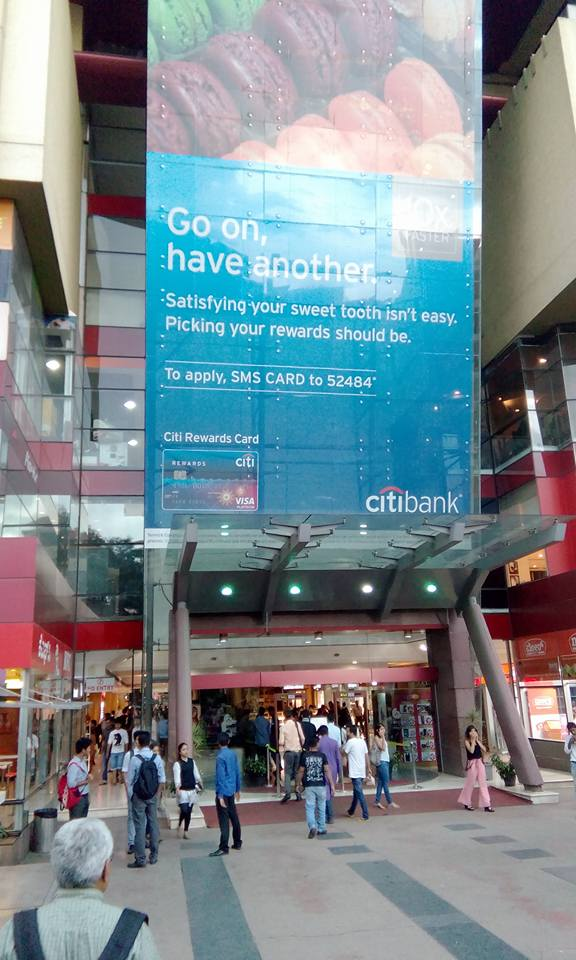 PVR cinemas bangalore